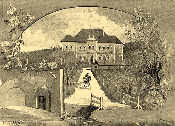 Rákóczi Mansion (Felsővadász, Hungary).